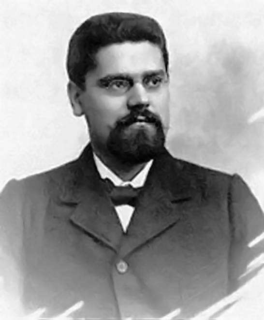 Philosopher Giovanni Gentile's portrait